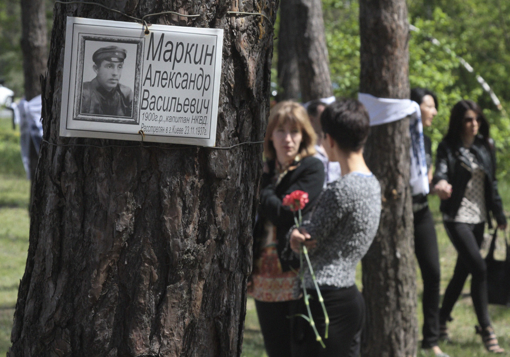 “Memorial events in Bykovnya Graves reserve”. On the Memorial Day of Victims of Political Repression people attend the Bykovnya Graves National Historical and Memorial Reserve where in 1930s and early 1940s people repressed and executed in Kiev by the People's Commissariat for Internal Affairs were buried.